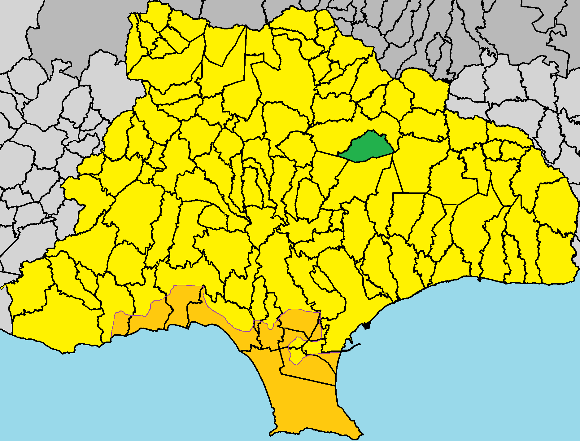 Louvaras in Limassol District.